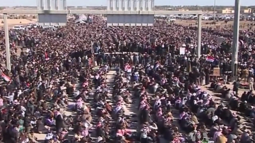 Iraqi Sunni demonstrators protesting against the Maliki led government.